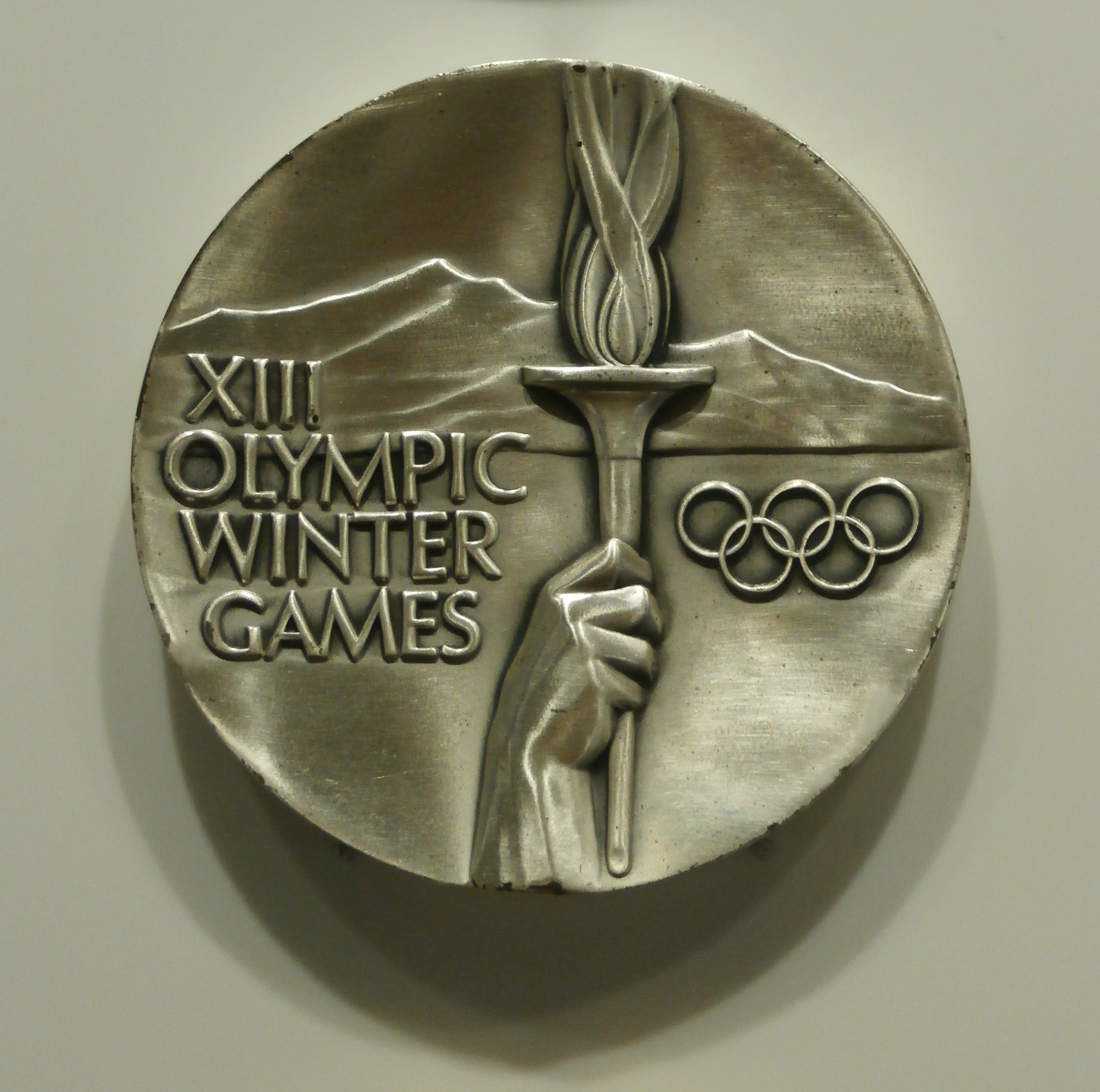 1980 Winter Olympics silver medal currently held in the Olympic Museum in Lausanne, Switzerland. The medal was designed by Gladys Gunzer and minted by Medallic Arts and Company.